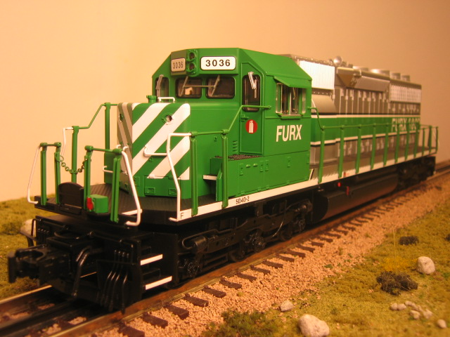 US O-Scale Locomotive